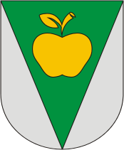 Coat of Arms of Fanipal, Belarus